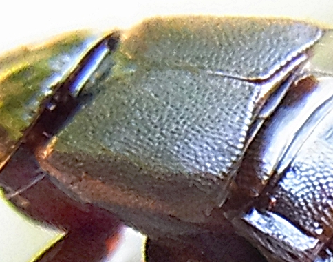 Quedius lateralis testaceous coloration at the reflexed elytral margins